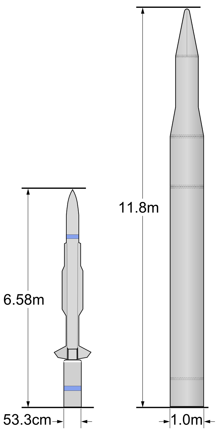 Kinetic Energy Interceptor missile (right) and SM-3 missile (left), No Text